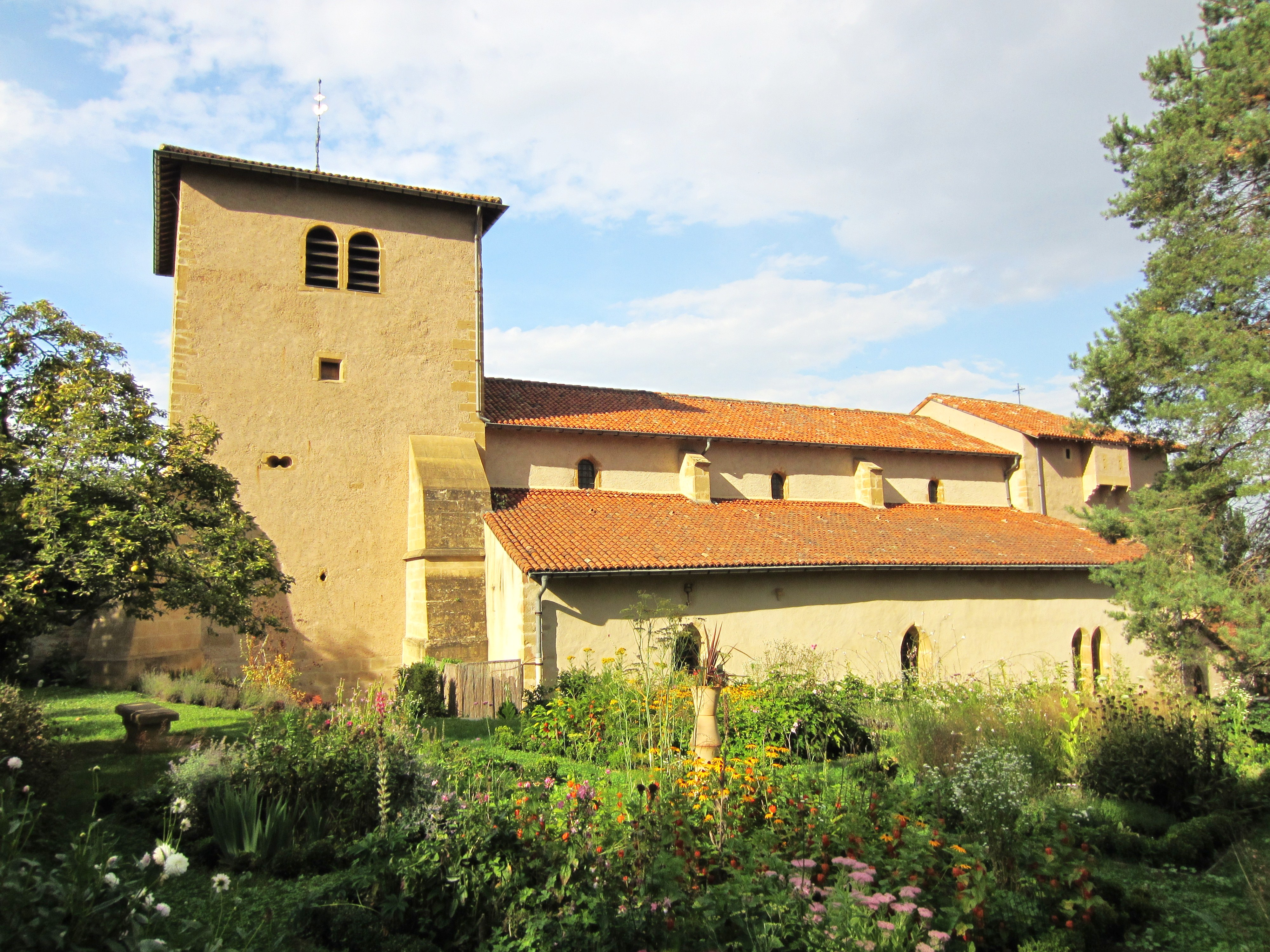 Description eglise Norroy Veneur Date3 September 2011Sourcemon appareil photoAuthorAimelaimePermission (Reusing this file) eglise Norroy Veneur